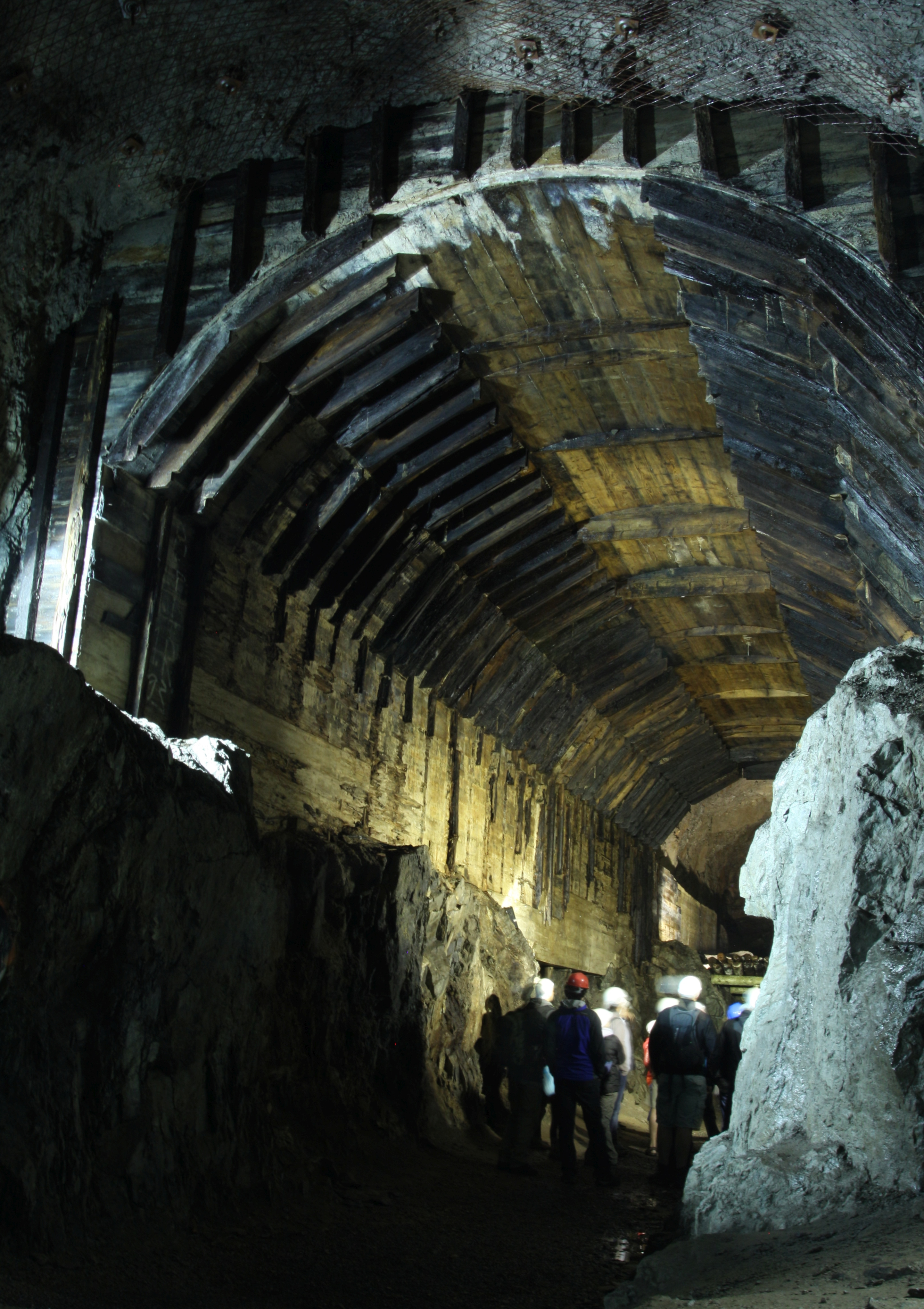 Image from the Complex Osówka, part of underground town build by Nazi Germany during the project Riese. The complex is located near the villages of Kolce and Sierpnica, inside Osówka Mountain, now in Poland.